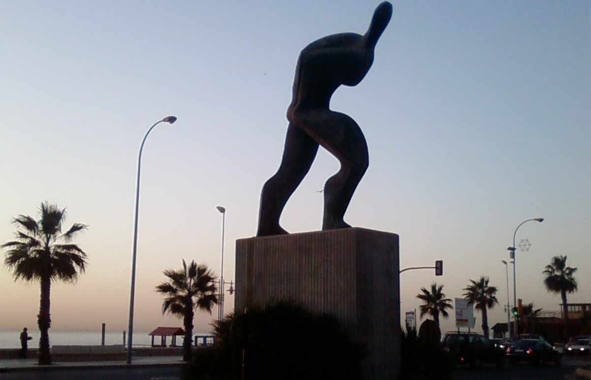 Sculpture of the Marengo, as seamen and fishermen are traditionally known in Málaga, Spain by Elena Laverón